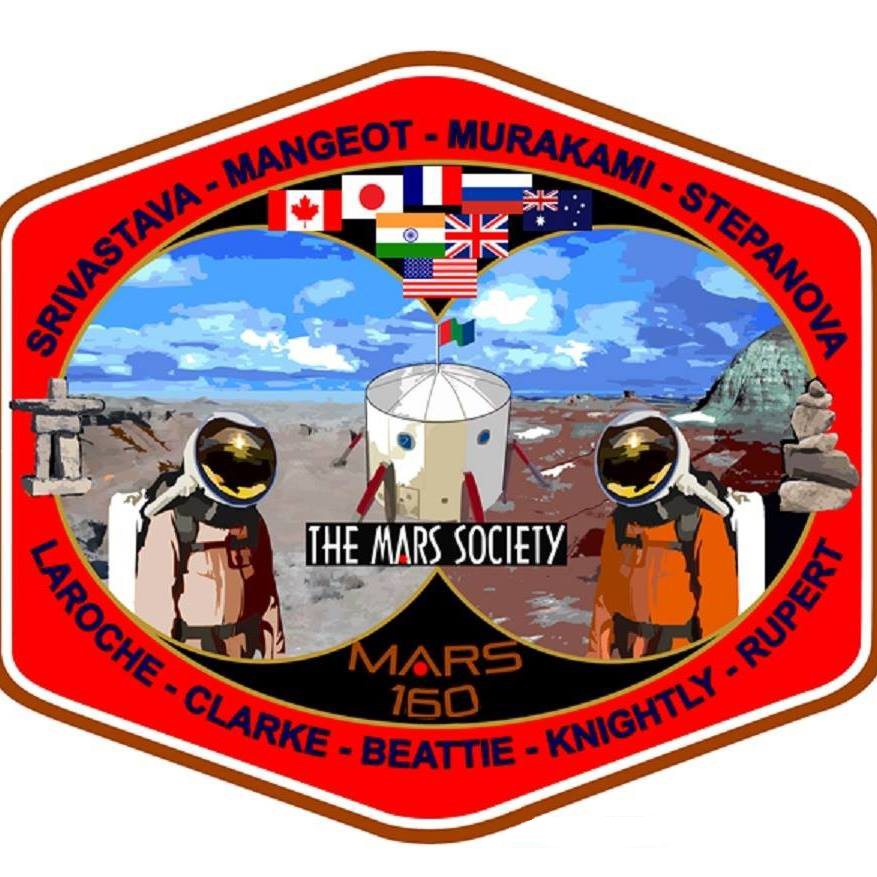 Mars 160 - FMARS Crew 14 patch from 2017